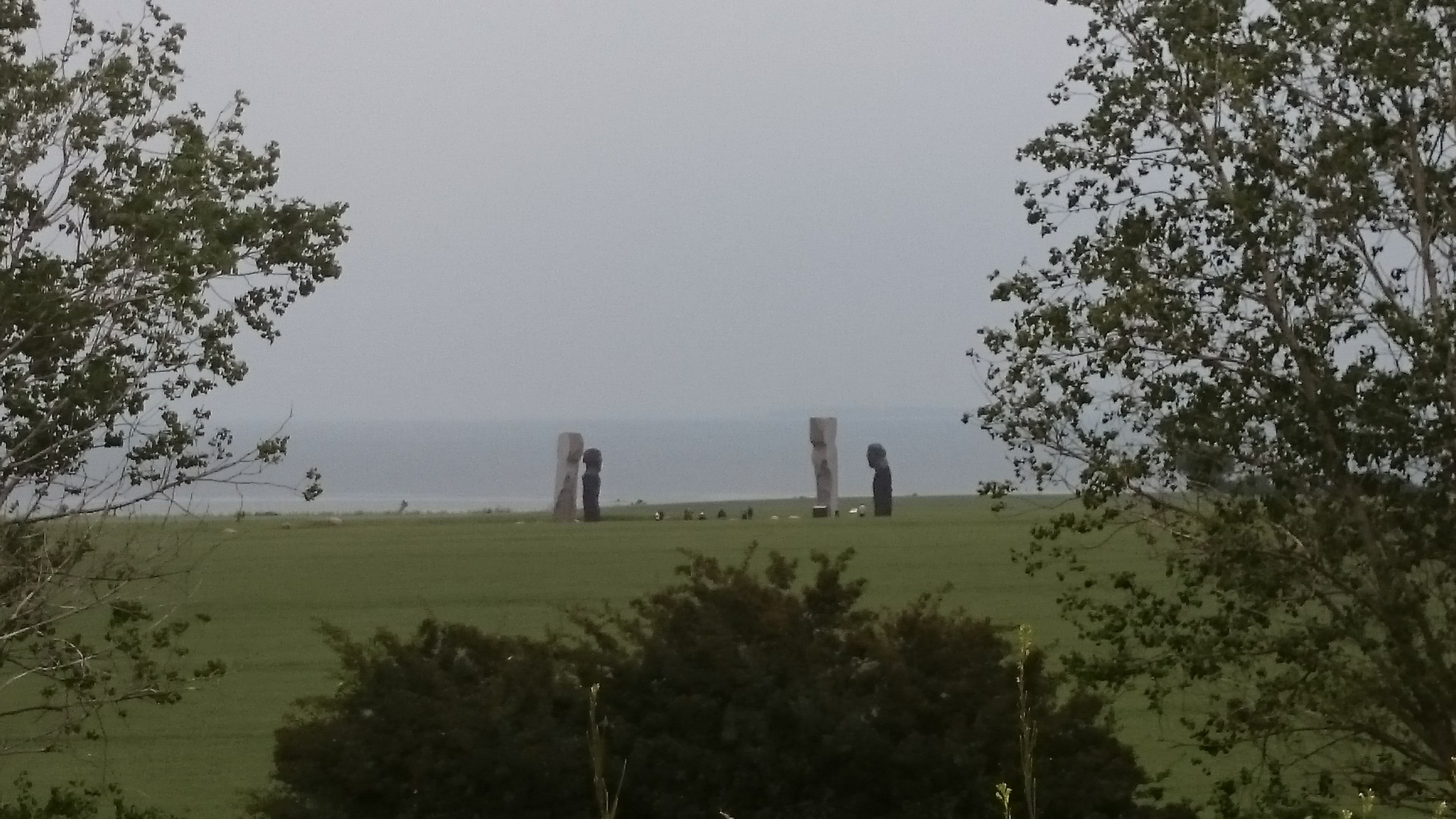 Sculptures on northern Lolland by Thomas Chr. Birch Kadziola. Seen in June 2015.